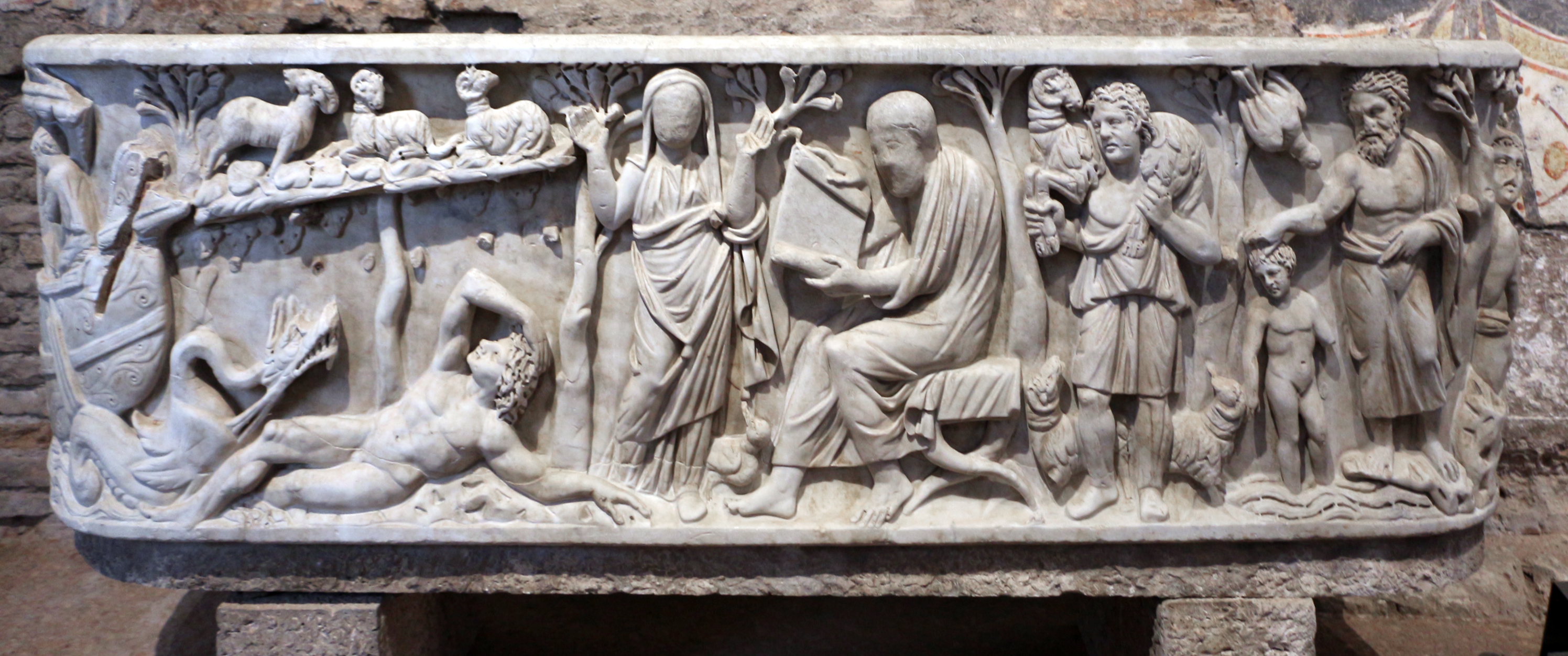 Santa Maria Antiqua (Rome) - Interior